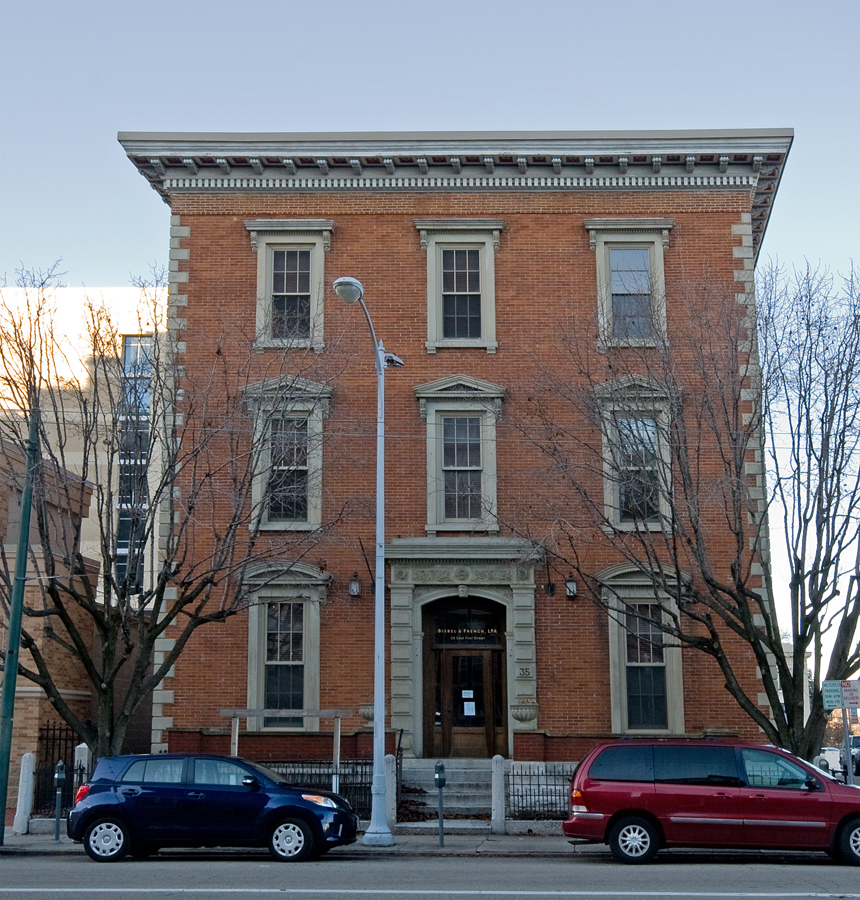 Dr. Jefferson A. Walters House in Dayton, OH. Photo by Greg Hume